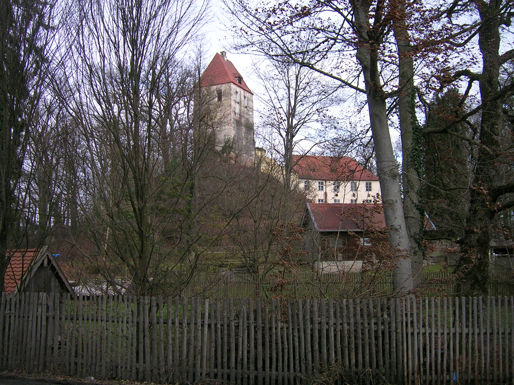 Schloss Bruckberg, Niederbayern